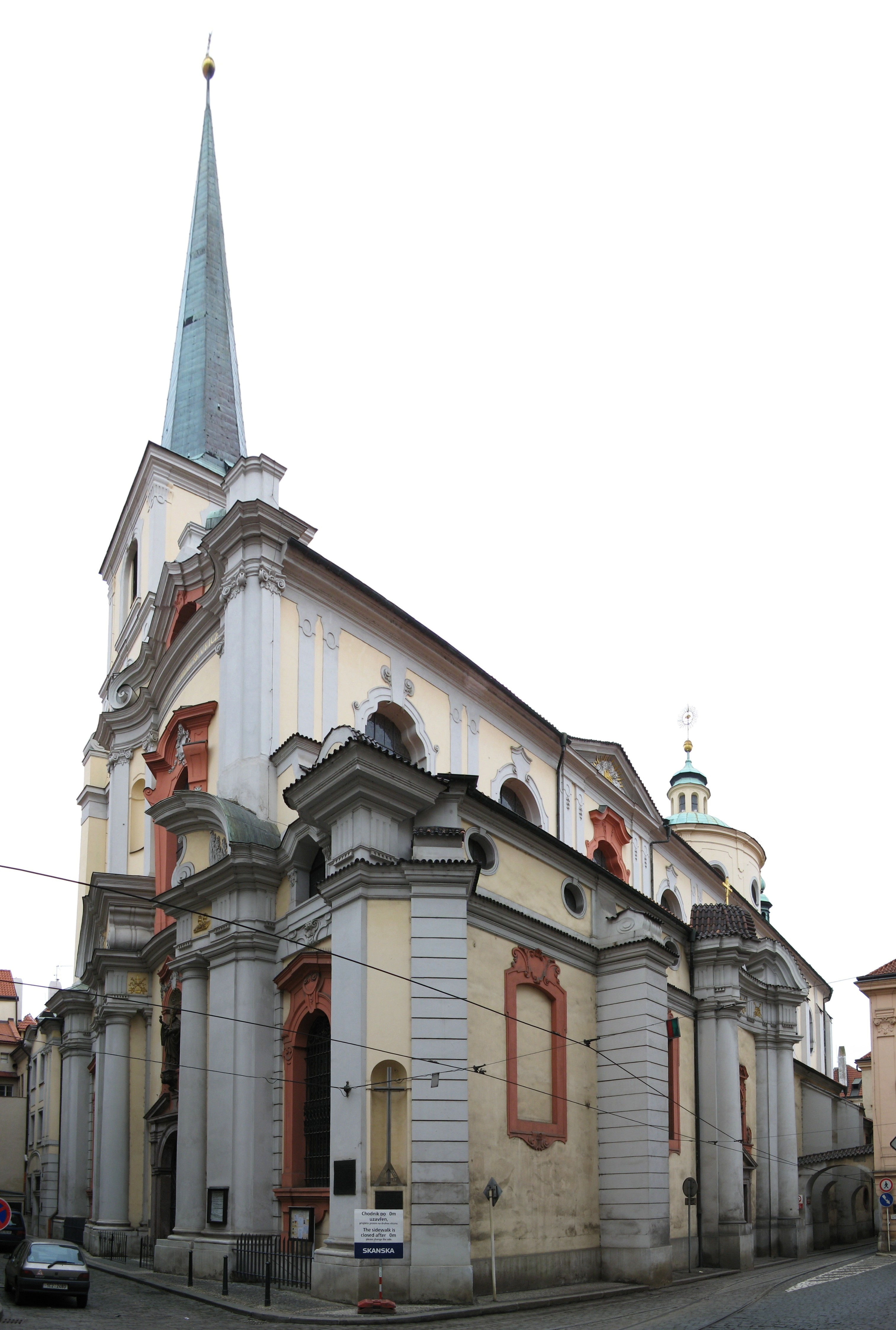 Church of St. Thomas in Lesser Town, Prague. Mosaic of 6 snaps.